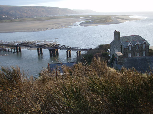 Barmouth bridge and Penrallt House from Aberamfra Hill. Views of the bridge, and Penrallt House from the hill above Borthwen Terrace. Fairbourne is in the middle ground and Llwyngwril is in the distance. Picture 4pm 10th March 2007.